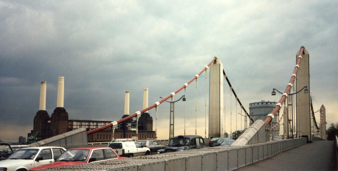 Battersea Power Station and Chelsea Bridge in London as in 1992.